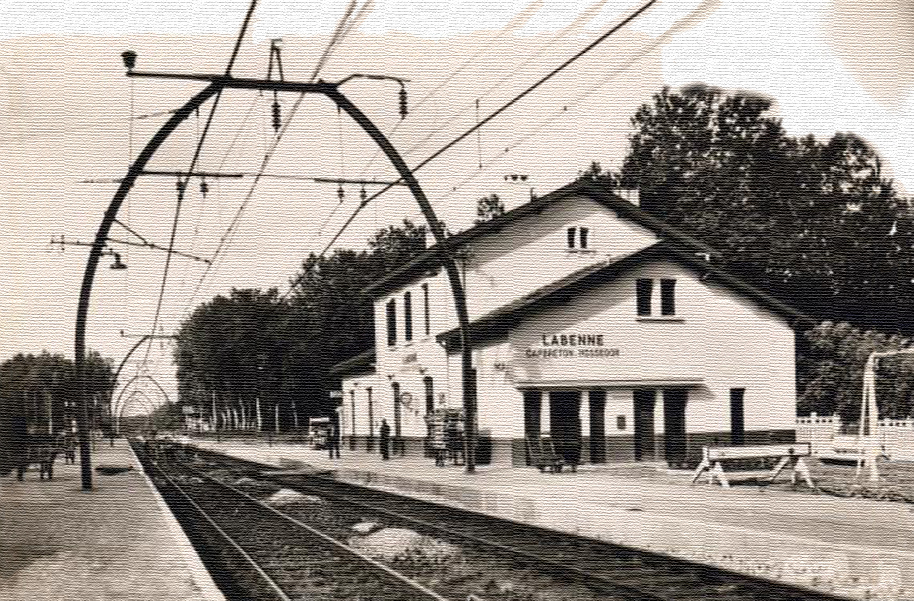 Railway station at Labenne, Midi, France, 1930th